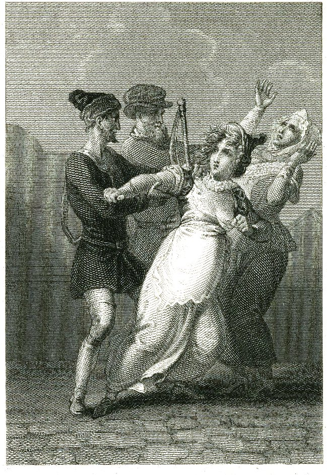 18th century print illustrating a scene from Henry IV, Part 2. Doll Tearsheet and Mistress Quickly being arrested